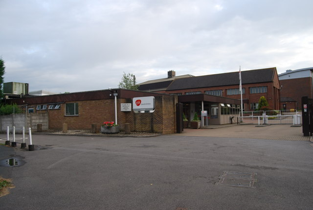 Glaxo Smith Kline Works, Powder Mills